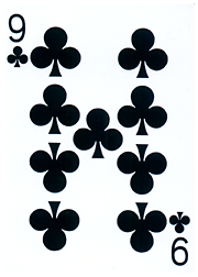 A Playing card: nine of clubs , from poker deck, in small png format.